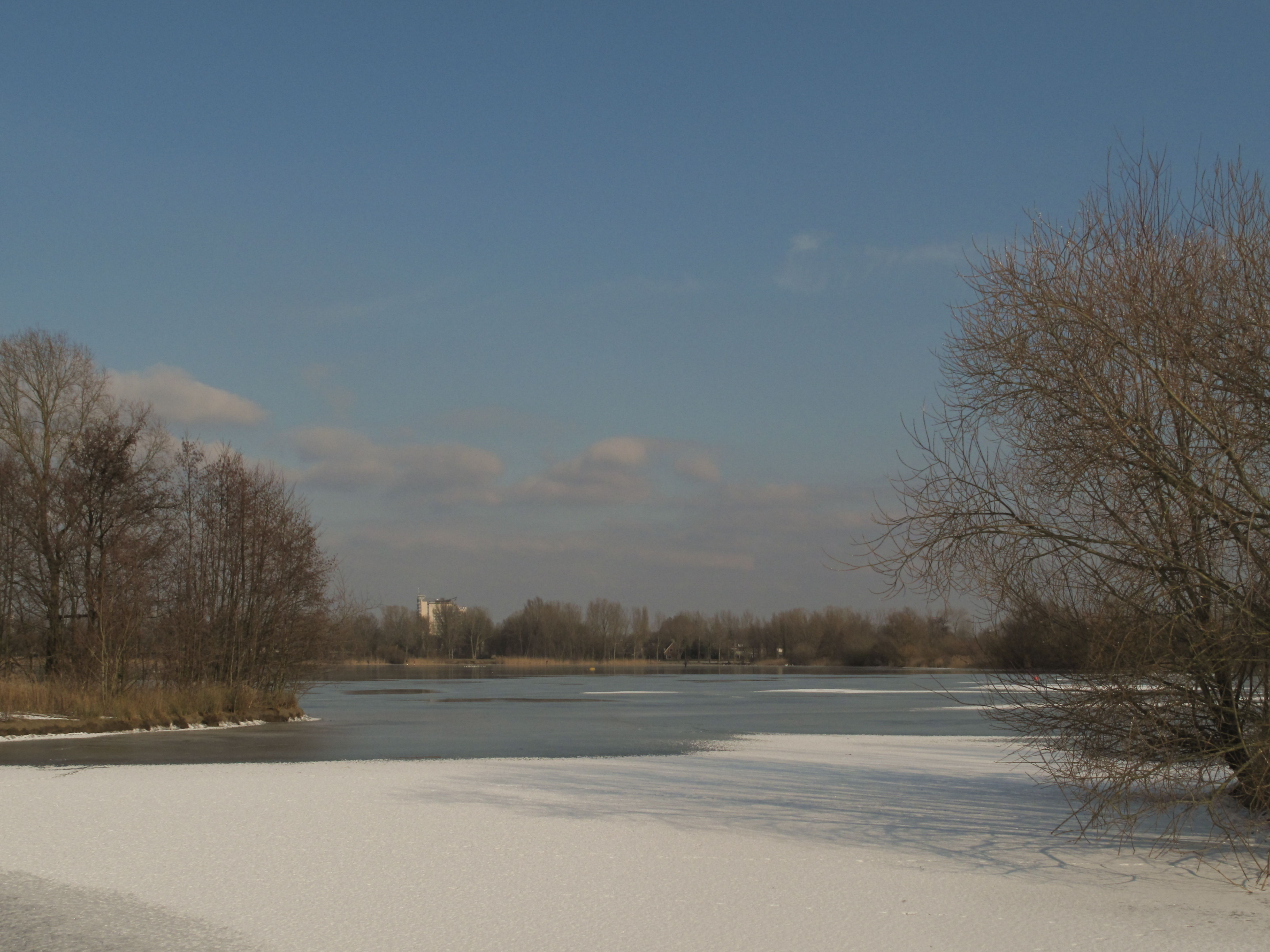 Arnhem, water (Rijkerswoerdse Plassen) in winter 2011/2012